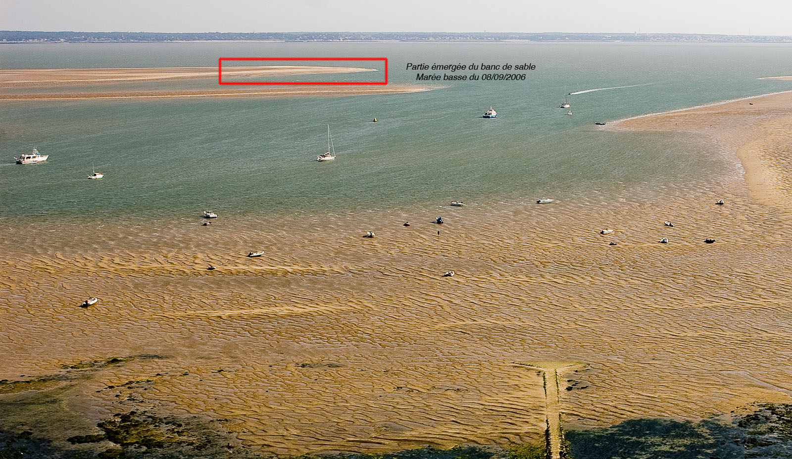 The Cordouan island viewed from Cordouan Lighthouse